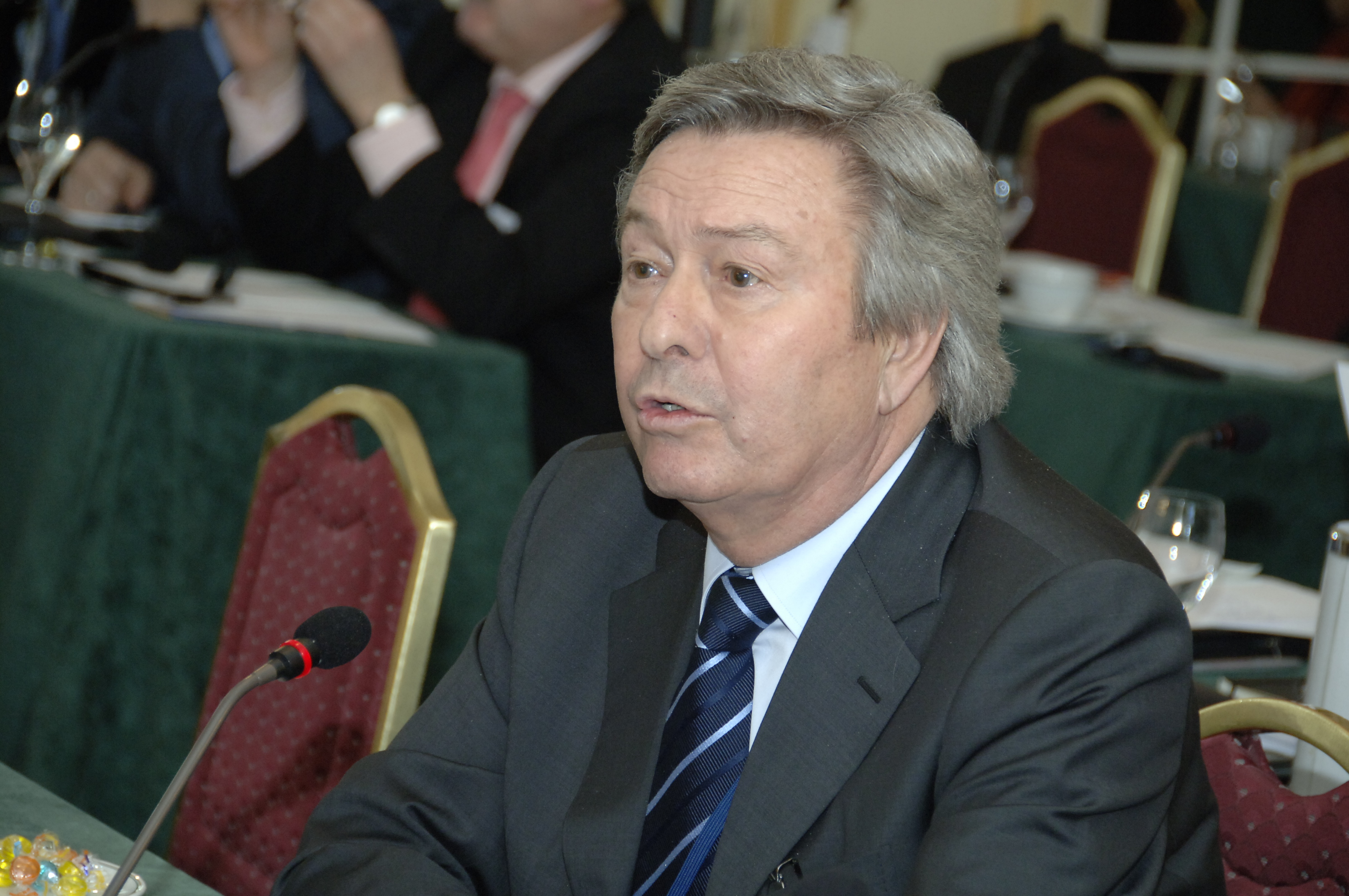 EPP CONVENTION ON CLIMATE CHANGE IN MADRID (6-7 FEBRUARY 2008)